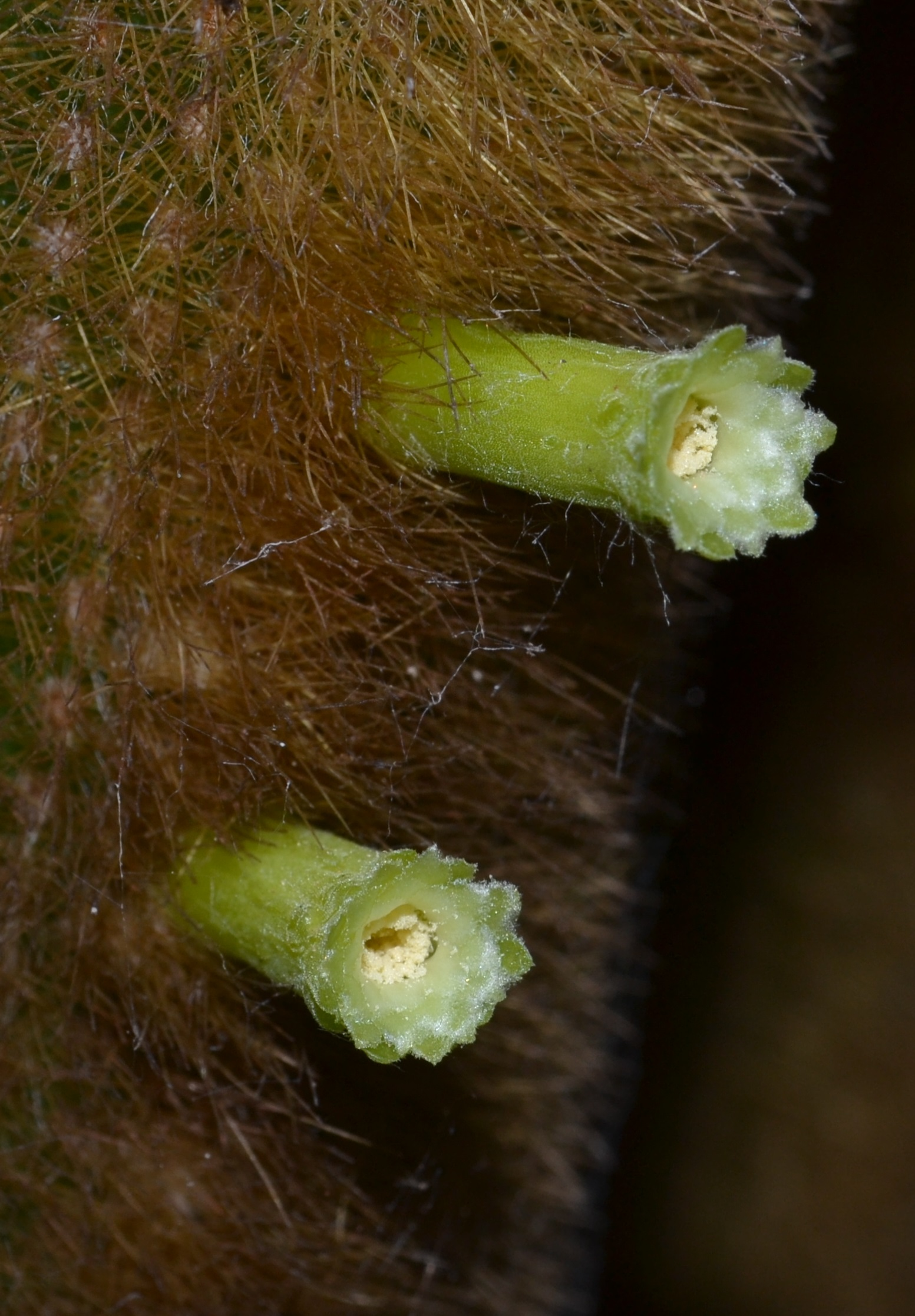 holotype flowering, Minas Gerais, Brasil